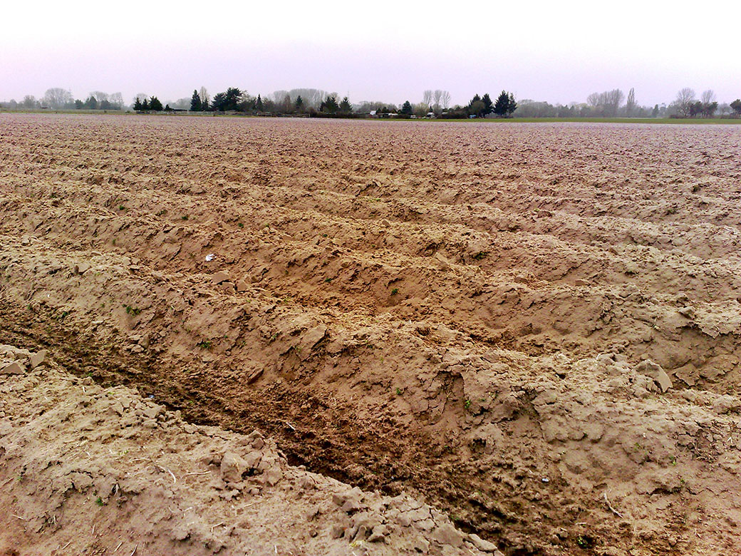 Asparagus officinalis